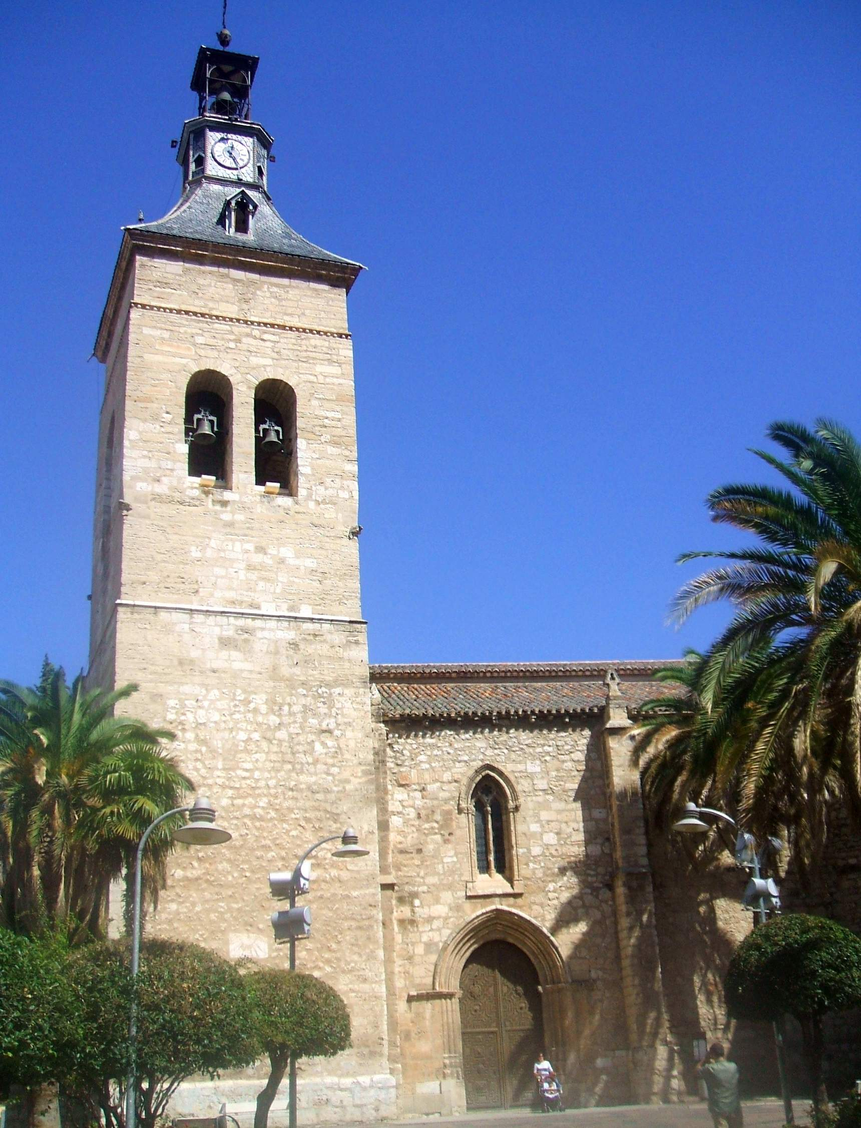 Iglesia de San Pedro, Ciudad Real